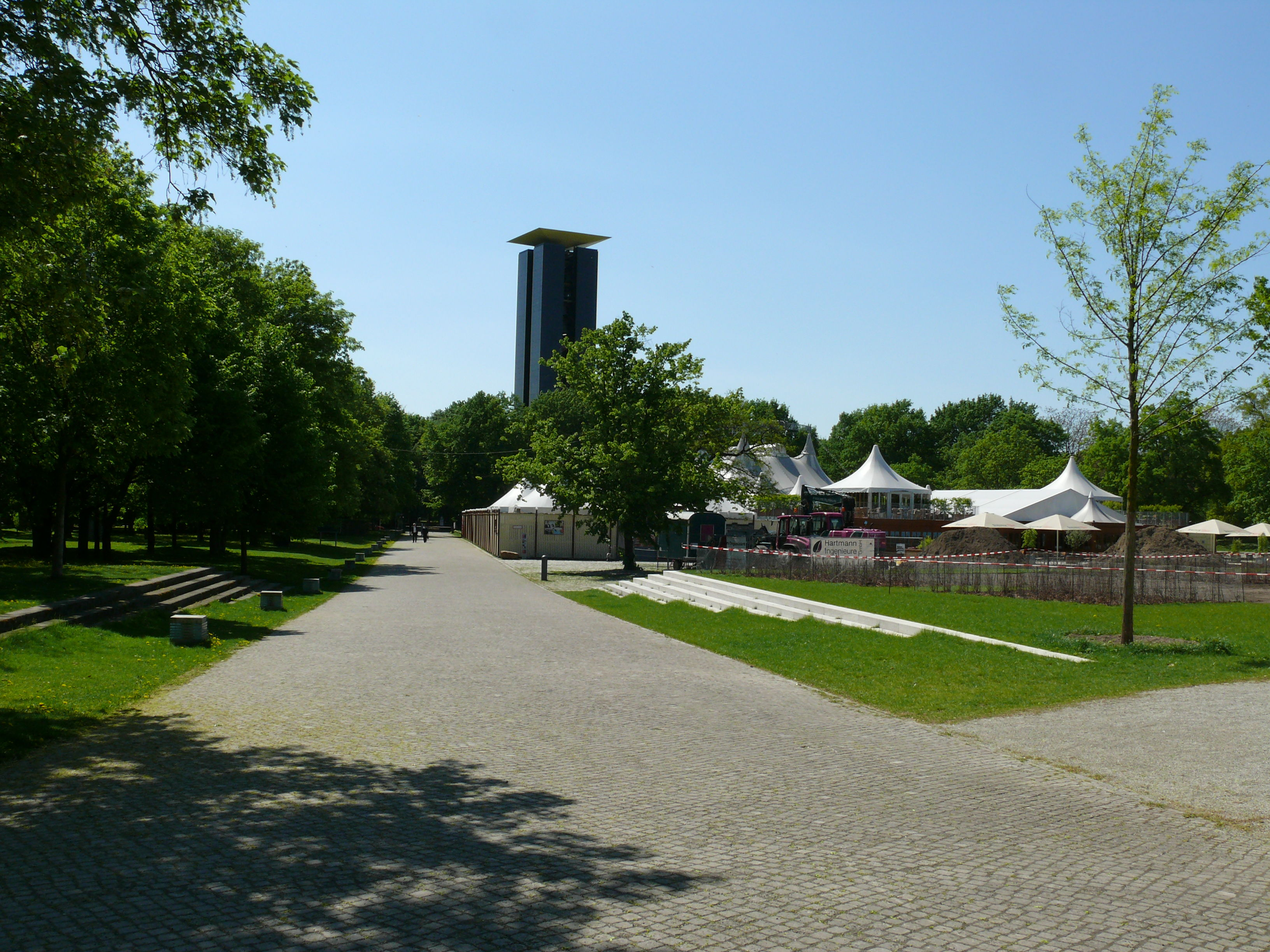 Berlin-Tiergarten Große Querallee